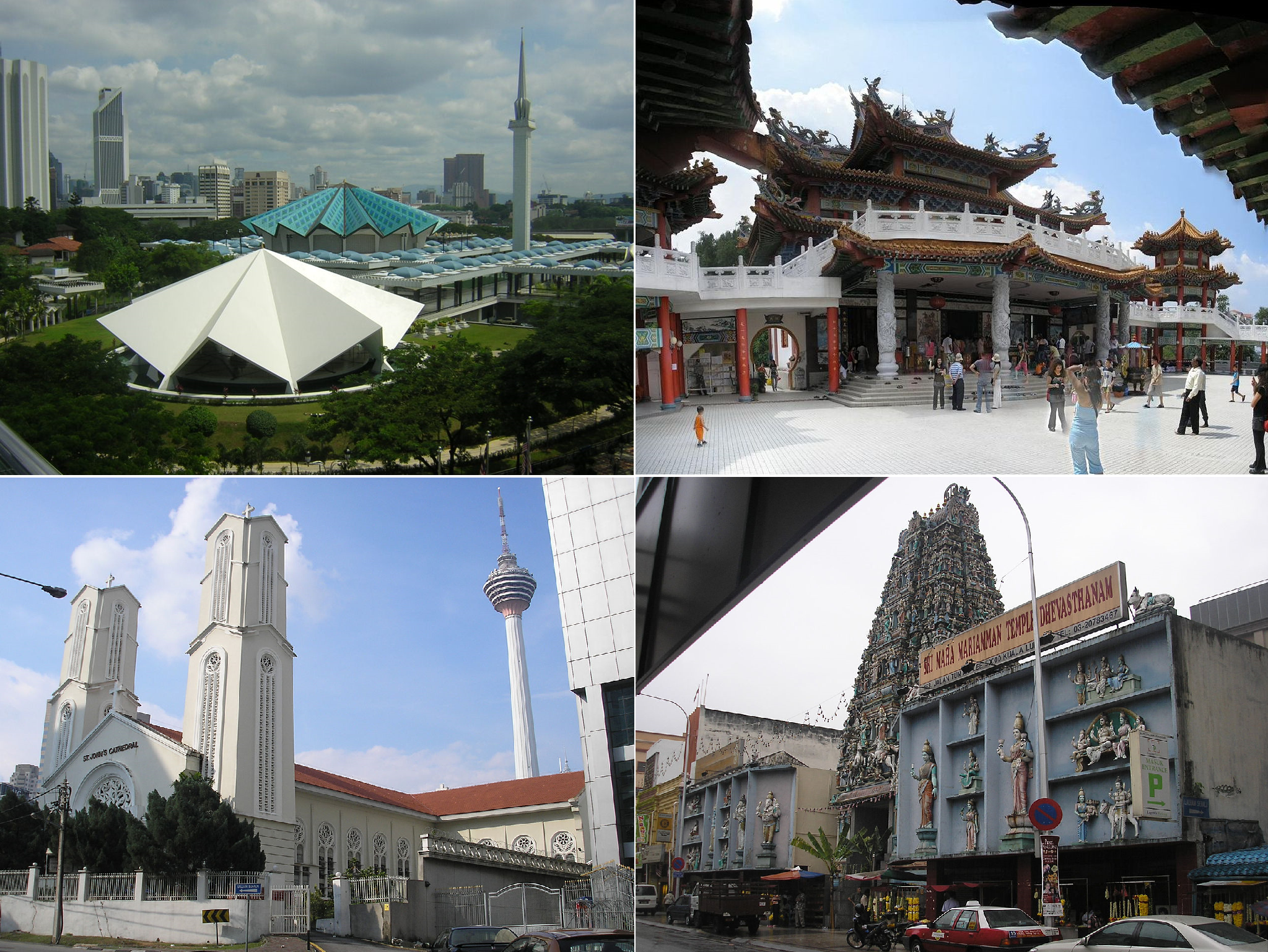 Places of worship in Kuala Lumpur. Clockwise from top left: Masjid Negara, Thean Hou Temple, Sri Mahamariamman Temple, St. John's Cathedral